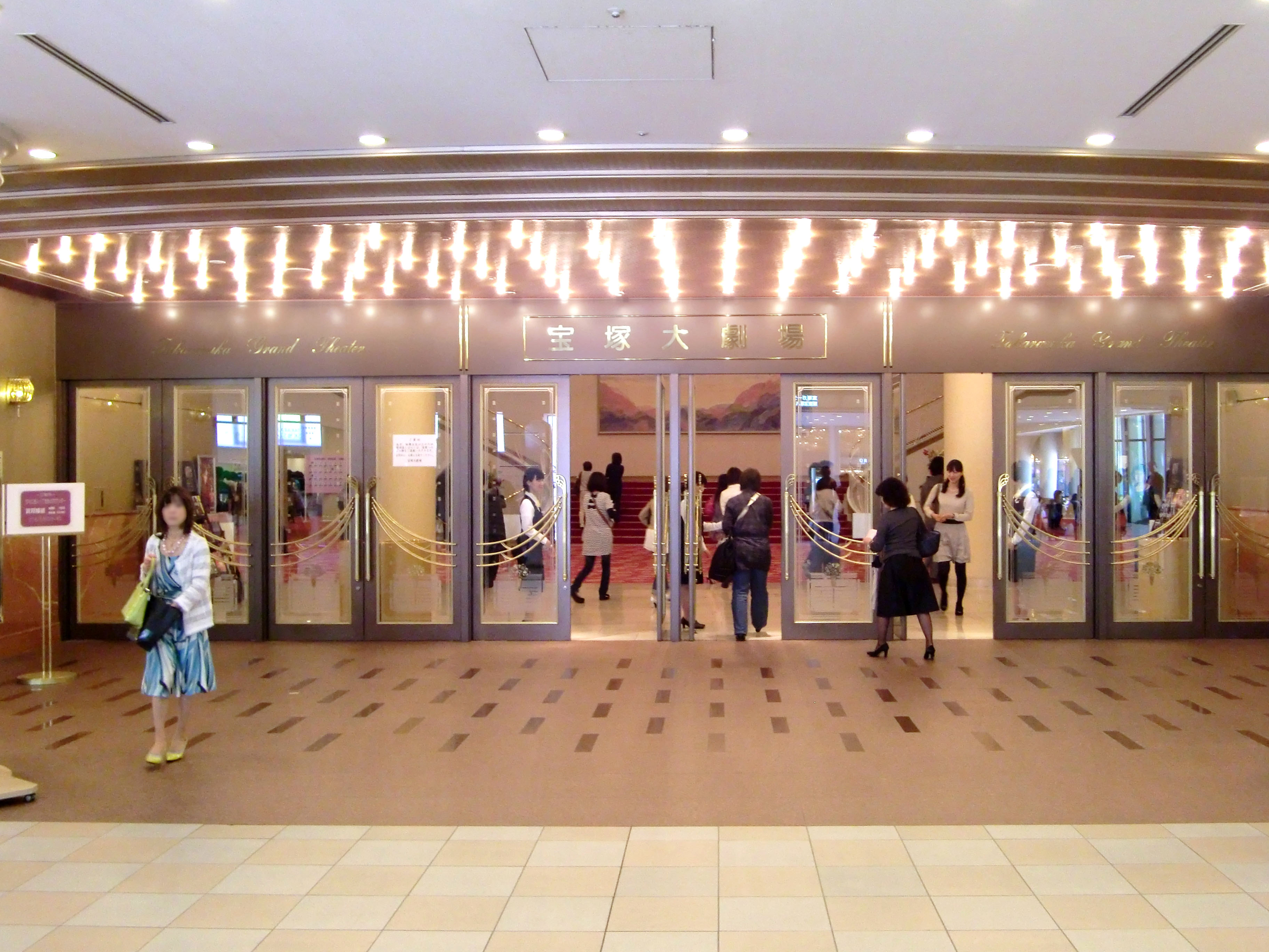 Takarazuka Grand Theater Entrance, 1-1-57 Sakaemachi Takarazuka-City Hyogo JAPAN.